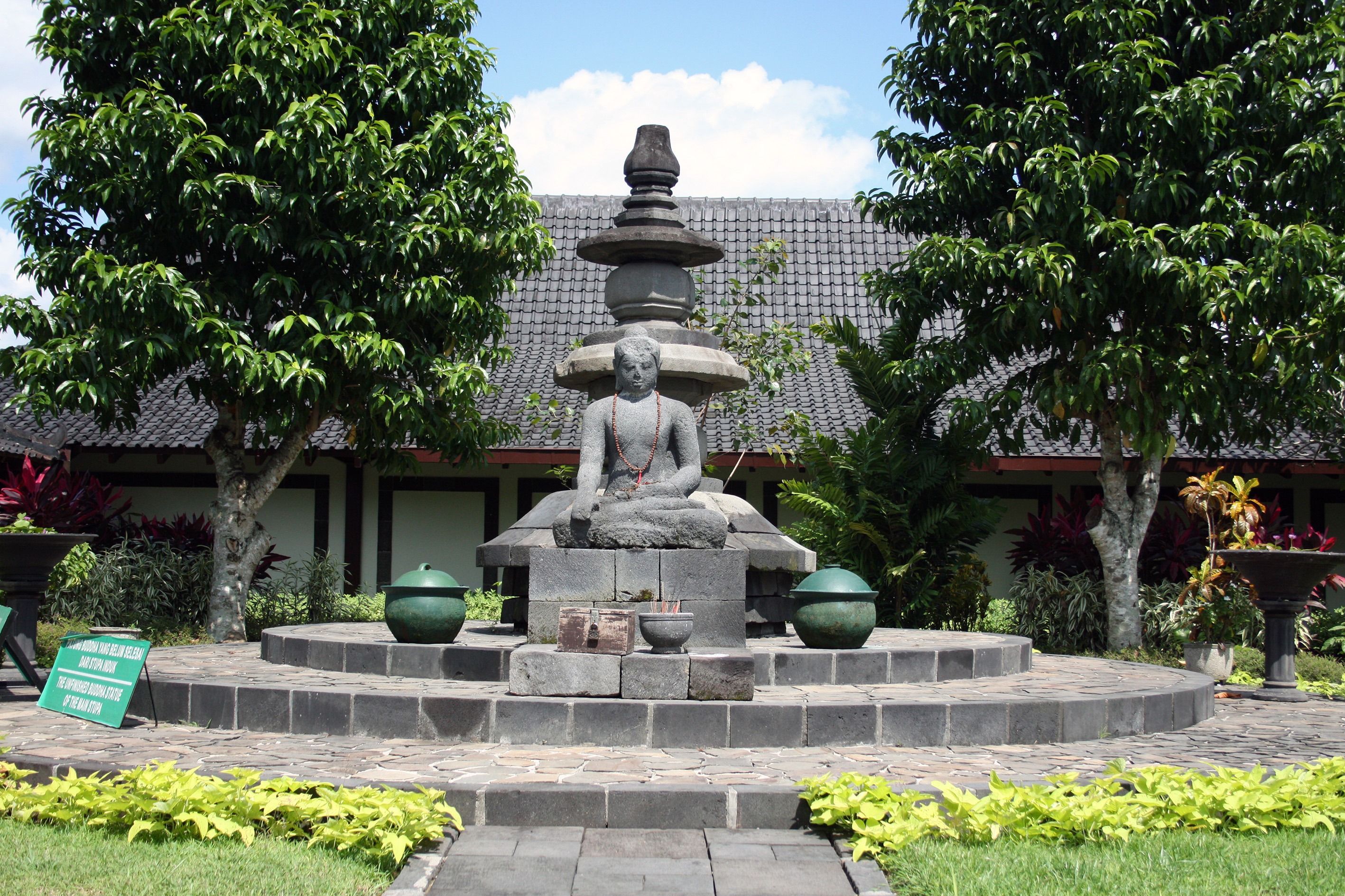 Unfinished Buddha and the main stupa chatra pinnacle behind it in Karmawibhangga Museum near Borobudur, Magelang, Central Java, Indonesia.